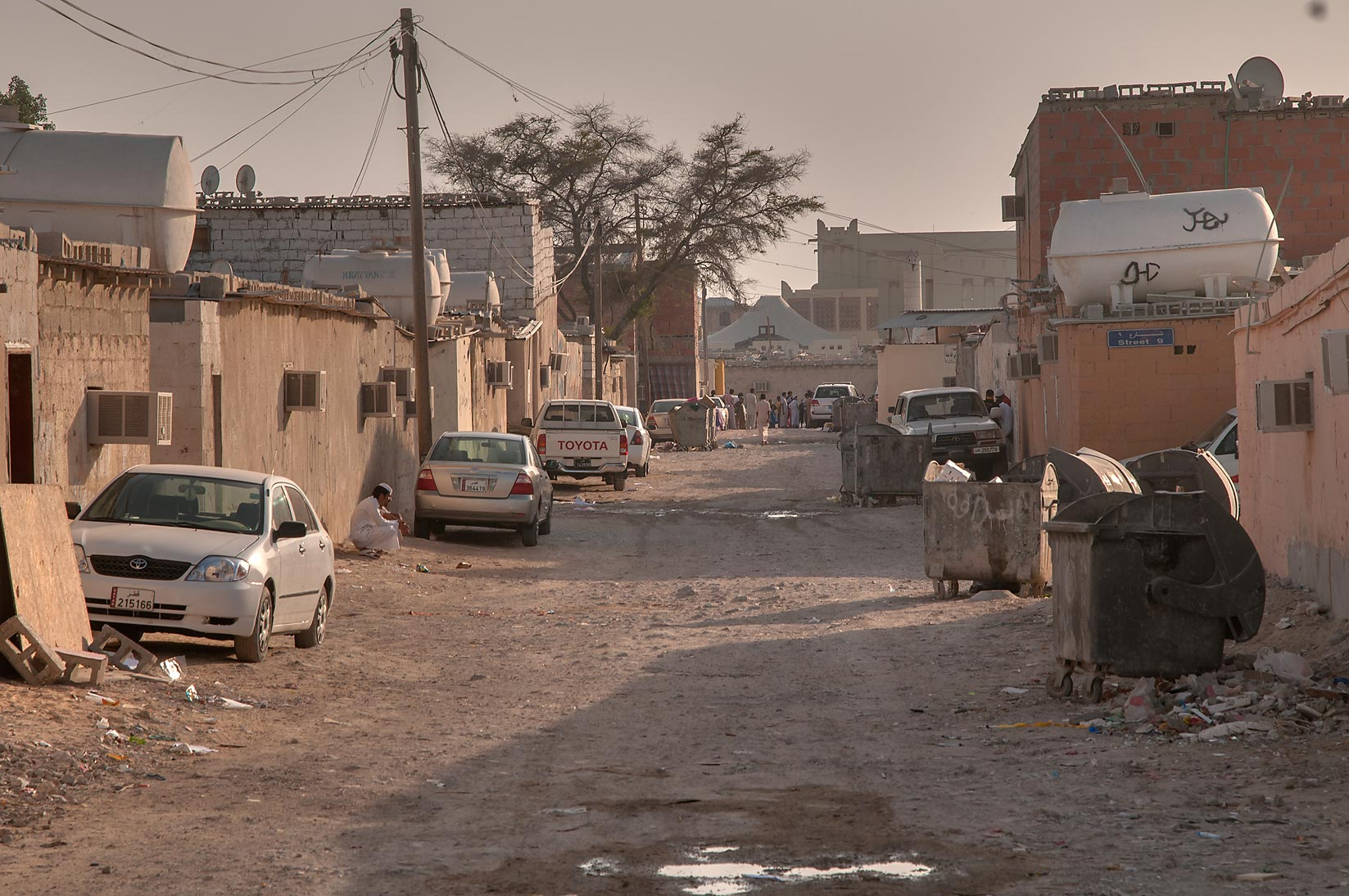 Street in Baluchi Camp in Abu Hamour district, Al Rayyan Municipality, Qatar.